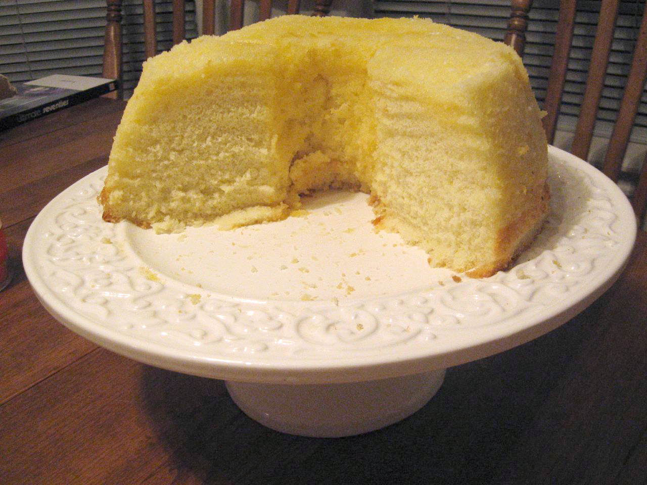 My first attempt at a chiffon cake. Not pretty.